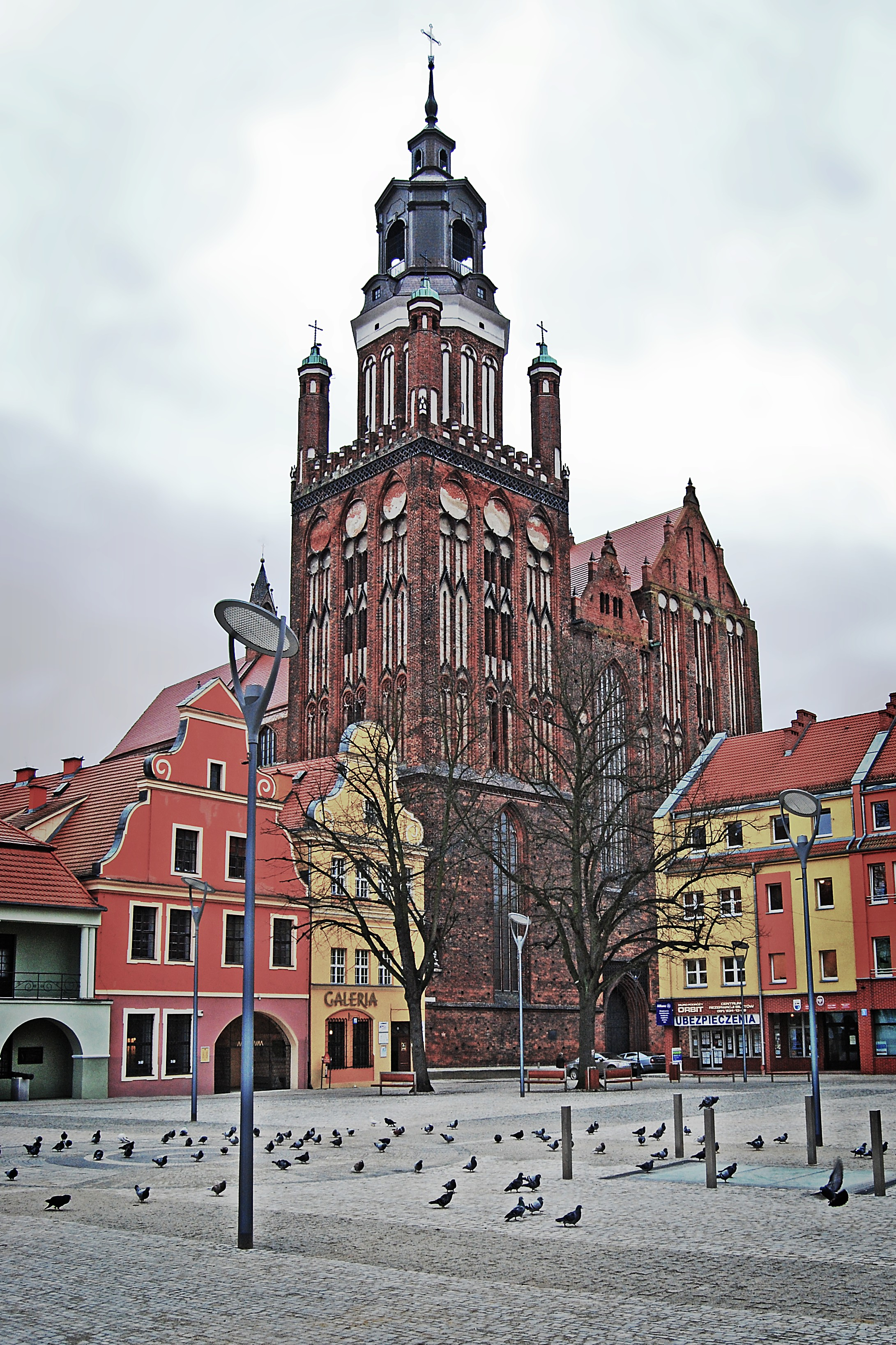 The Church of the Blessed Virgin Mary, Queen of the World in Stargard, Poland